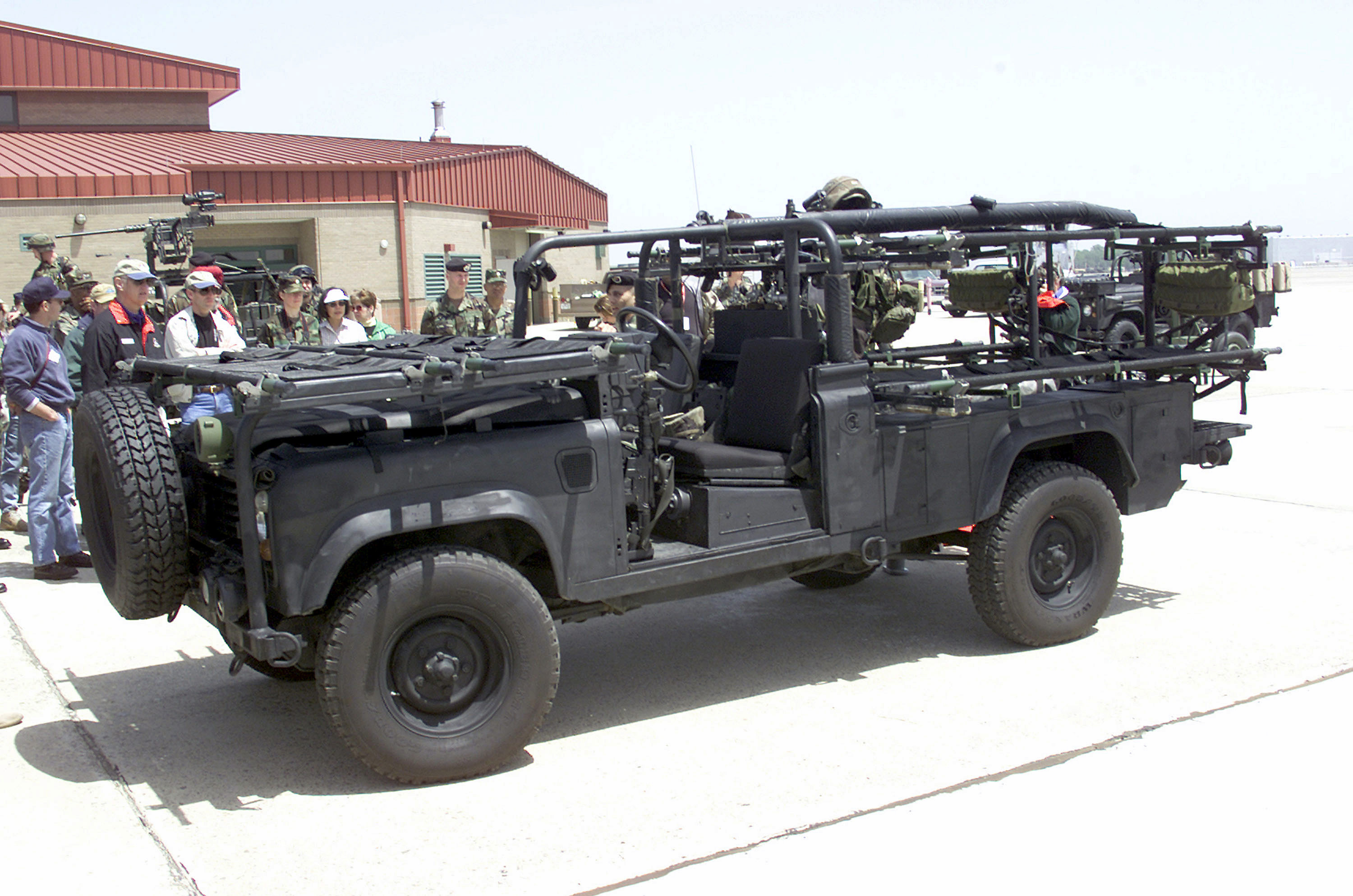 A U.S. Army Ranger MEDSOV (Medical Special Operations Vehicle) carries six patient litters, with two litters on hood and two litters stacked along each rear side, and is based on the British Land Rover Defender, on display from B Company, 1st Battalion, 75th Ranger Regiment, at the National War College, April 19, 2001.